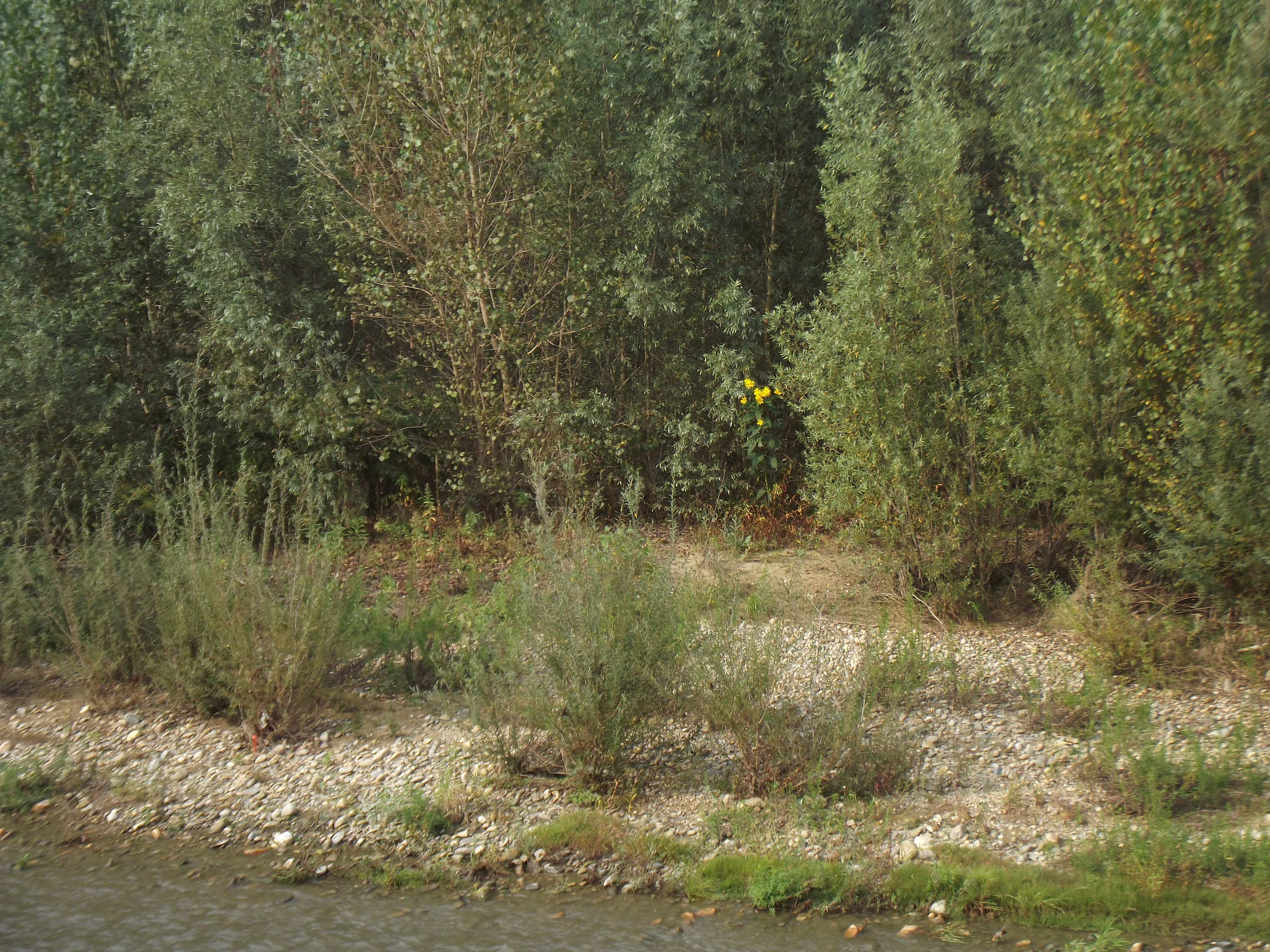 Garzaia di Carisio: Elvo gravel banks